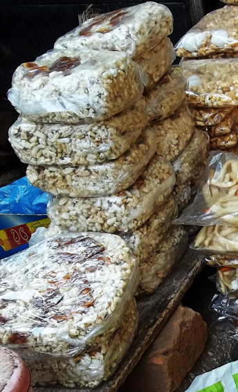 Kora khai is a traditional food of Odisha, it's also one of the Chapana Bhoga (56 sweet delicacies) of Lord Jagannatha. Bhubaneswar is famous for this preparation. This media file is uploaded with Odia loves Wikipedia English |italiano |македонски |മലയാളം |ଓଡ଼ିଆ +/−